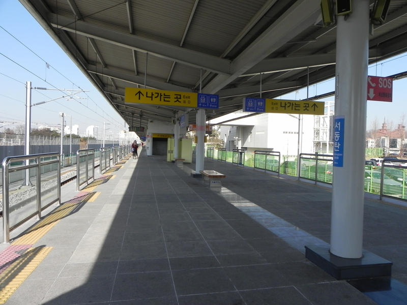 Seodongtan Station on Seoul Subway Line 1 (via Byeongjeom Depot Line)